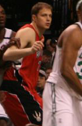 Rasho Nesterovic, cropped